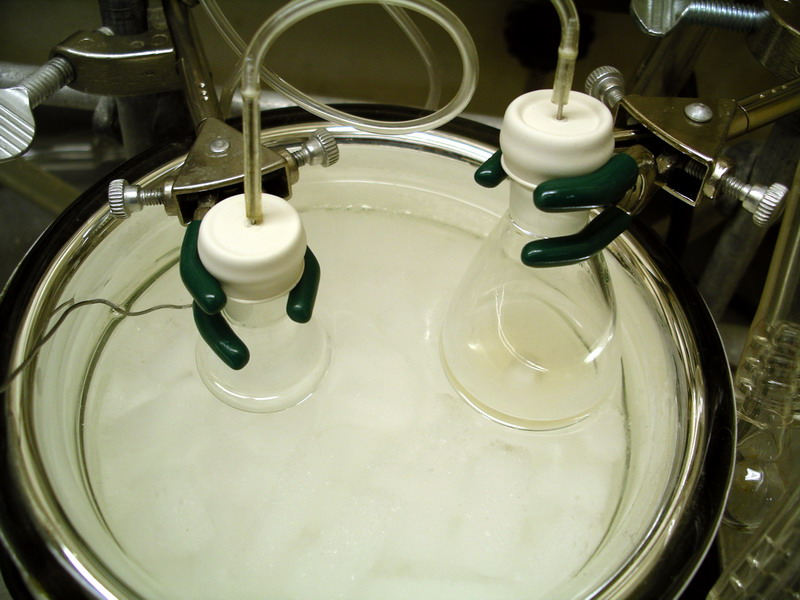 a picture of the experimental setup in a typical aldol reaction